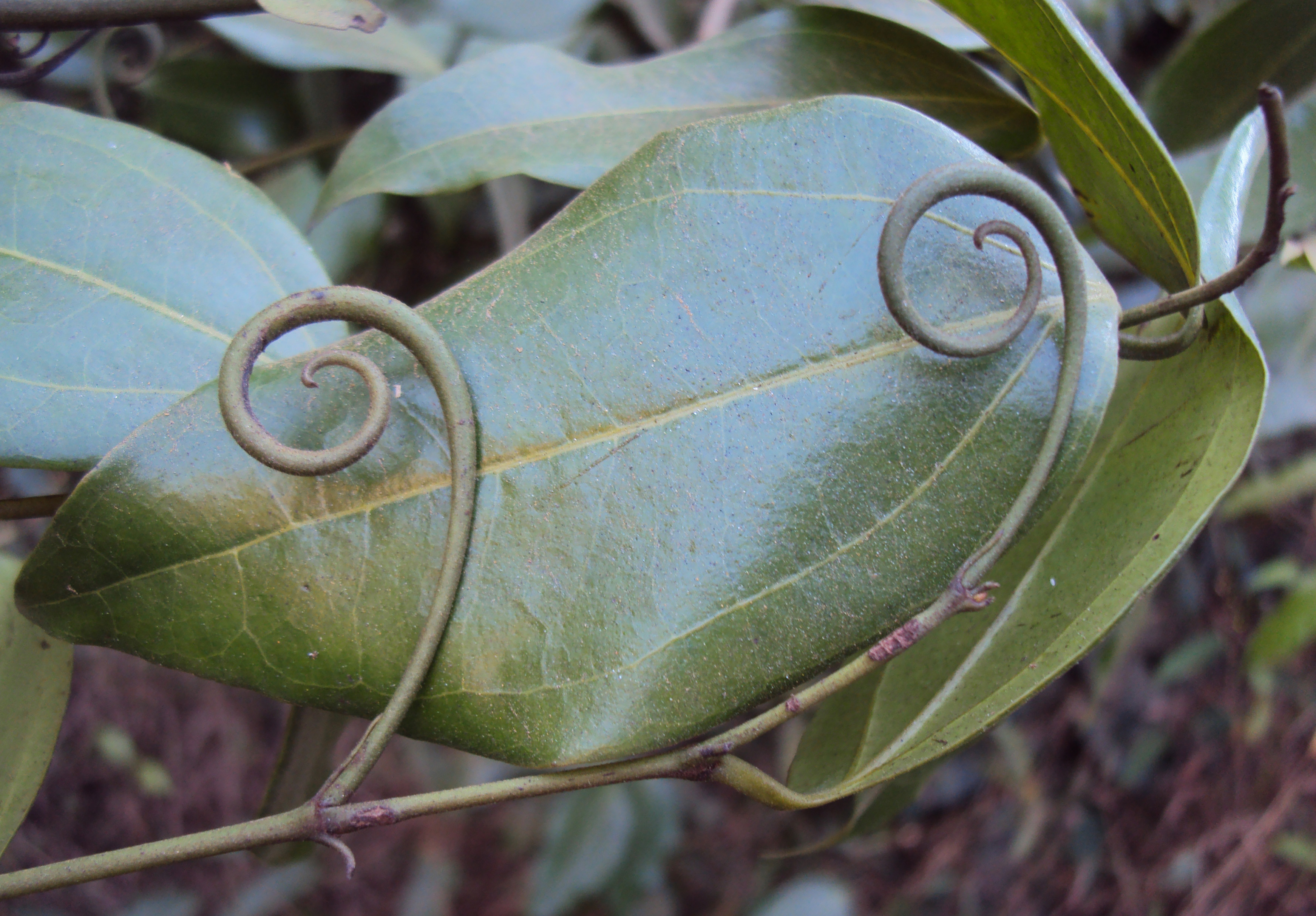 Strychnos colubrina